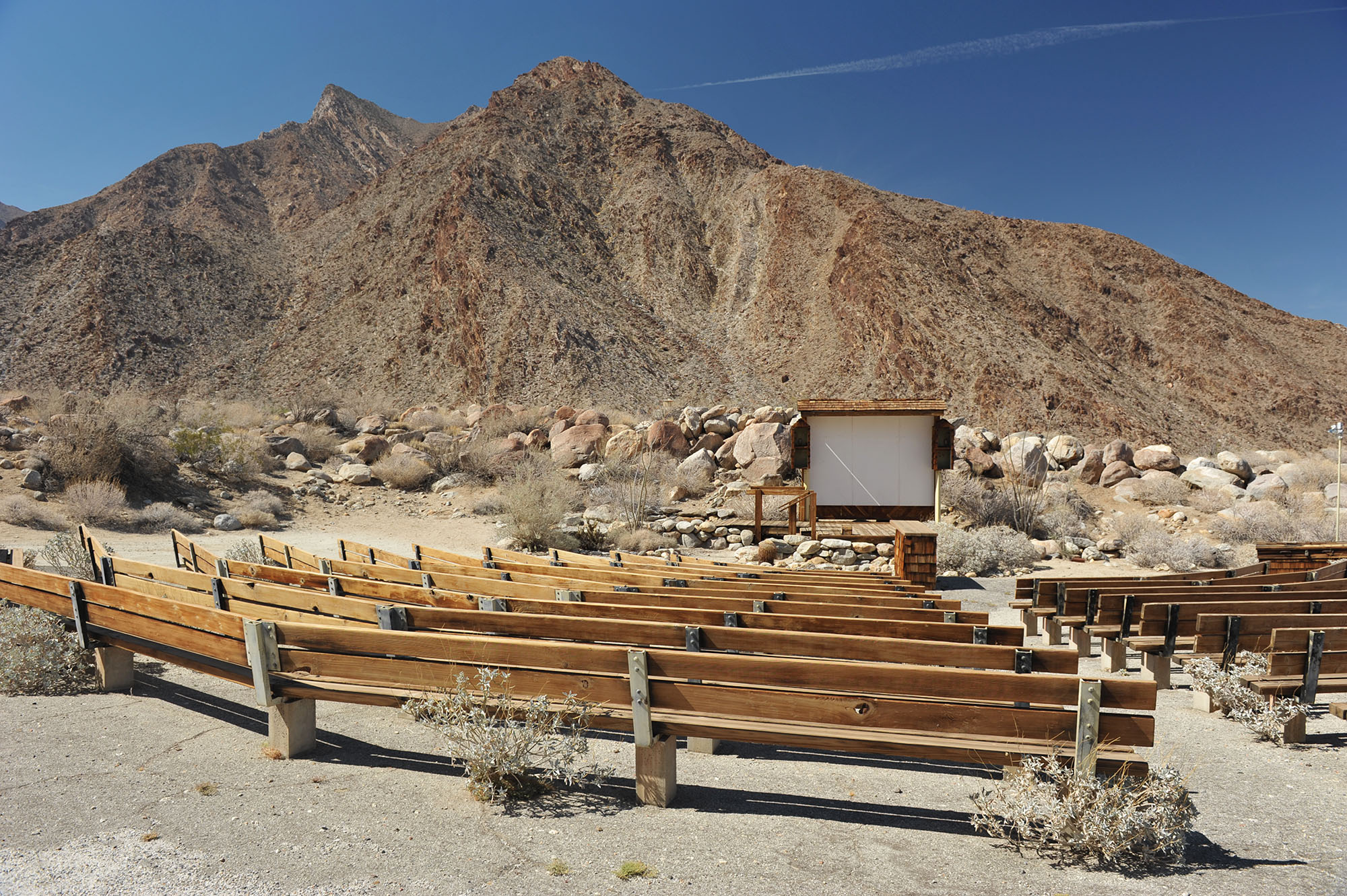 The Palm Canyon Campground amphitheater at Borrego Springs, CA.